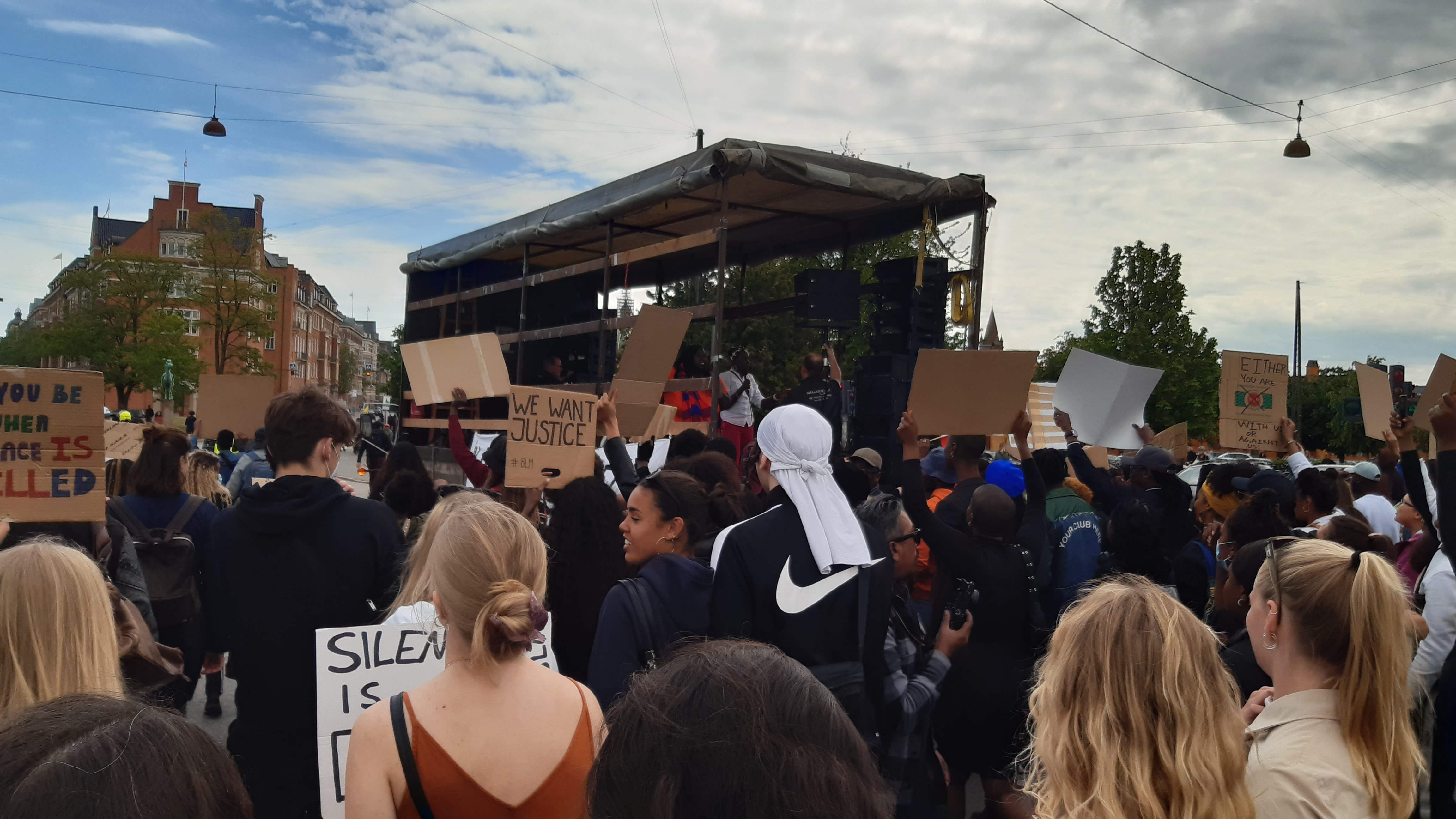 Black Lives Matter Denmark demonstration in Østerbro, Copenhagen, June 7, 2020.